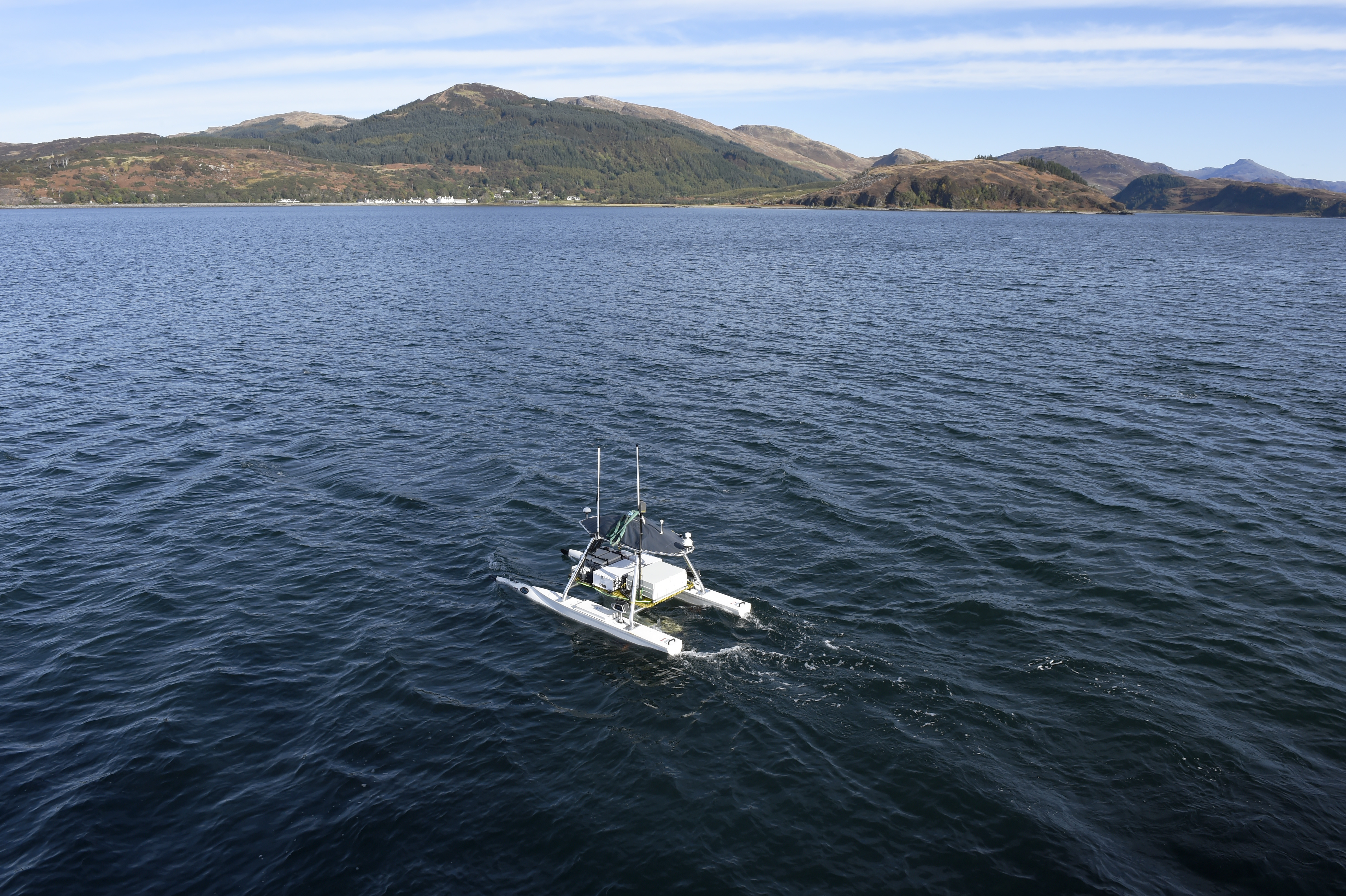 The Unmanned Survey Vehicle (USV-2600) from Defence Research and Development Canada takes part in the first-ever Unmanned Warrior (UW), a research and training exercise designed to test and demonstrate the latest in autonomous naval technologies while simultaneously strengthening international interoperability. The U.S. team, led by the Office of Naval Research, is in Scotland to partner with more than 40 international participants from other navies, industry, academia and research laboratories. Unmanned Warrior is part of Joint Warrior, a semiannual Kingdom-led training exercise designed to provide NATO and allied forces with a unique multi-warfare environment in which to prepare for global operations. (U.S. Navy photo by John F. Williams/Released)